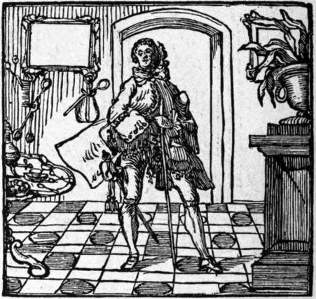 Vignette for the play "Svenska sprätthöken". Published in Volume 1 (of 8) of Nils Personne’s history of Swedish theatre.